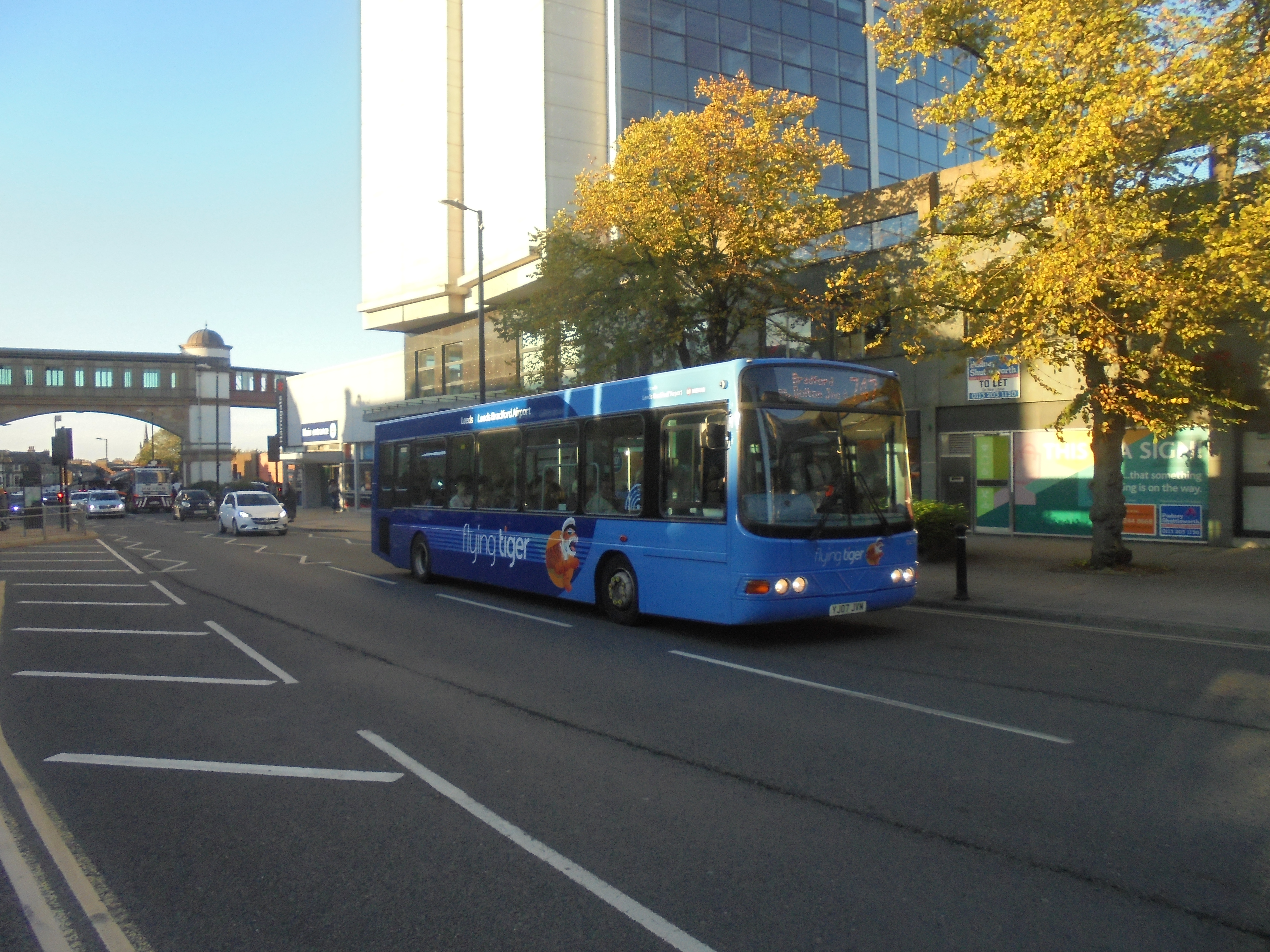 Flying Tiger route 747 to Bradford via Leeds Bradford Airport seen on Station Parade, Harrogate, North Yorkshire. Taken on the evening of Wednesday the 12th of September 2018.